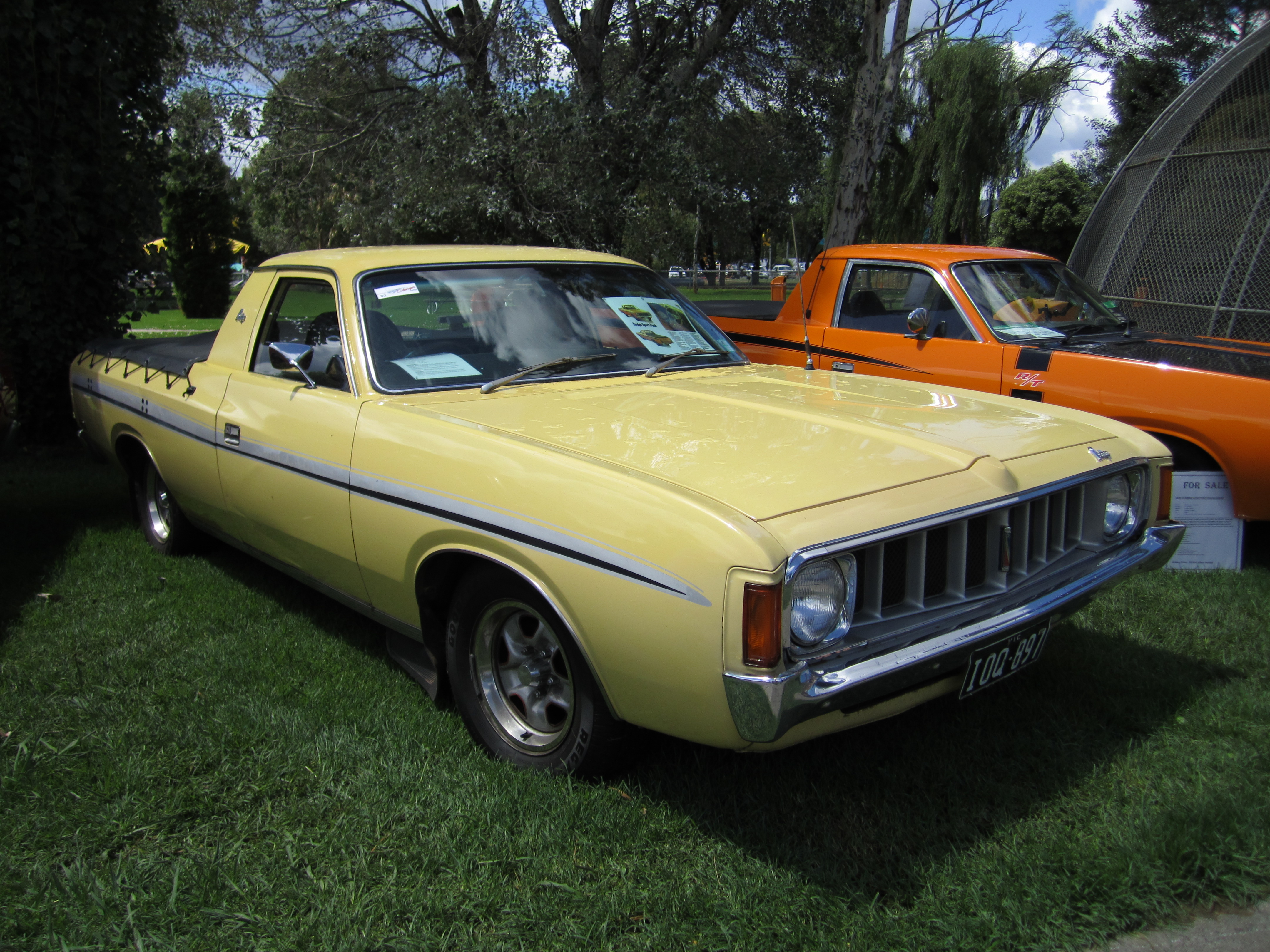 Dodge utility (VJ) Built from May 1973-October 1975. Engines; 215, 245 or 265 Hemi 6s or 318 V8. VJ Utility; Dodge or Valiant. Sports pack lifted it to almost RT specs.